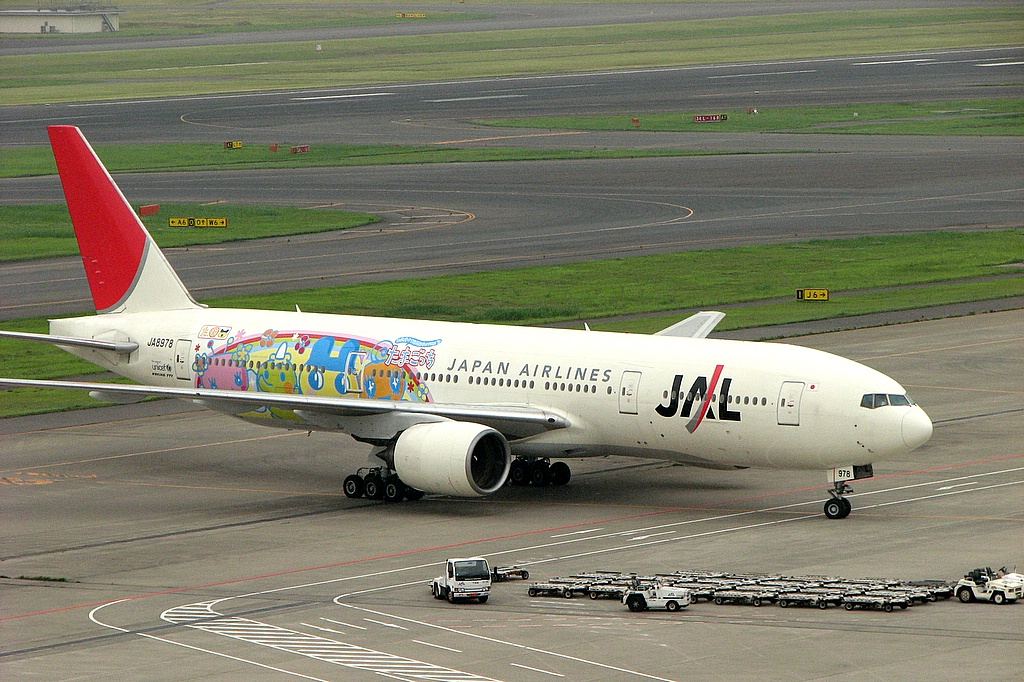 Wikipedia:Japan Airlines' Boeing 777-281(JA8978) taxing to spot. It is painted with a TAMAGOCCHI theme. A滑走路に着陸し、第1ターミナルのスポットまで移動中。スポットの直前で、荷物を運ぶための車も待機中。